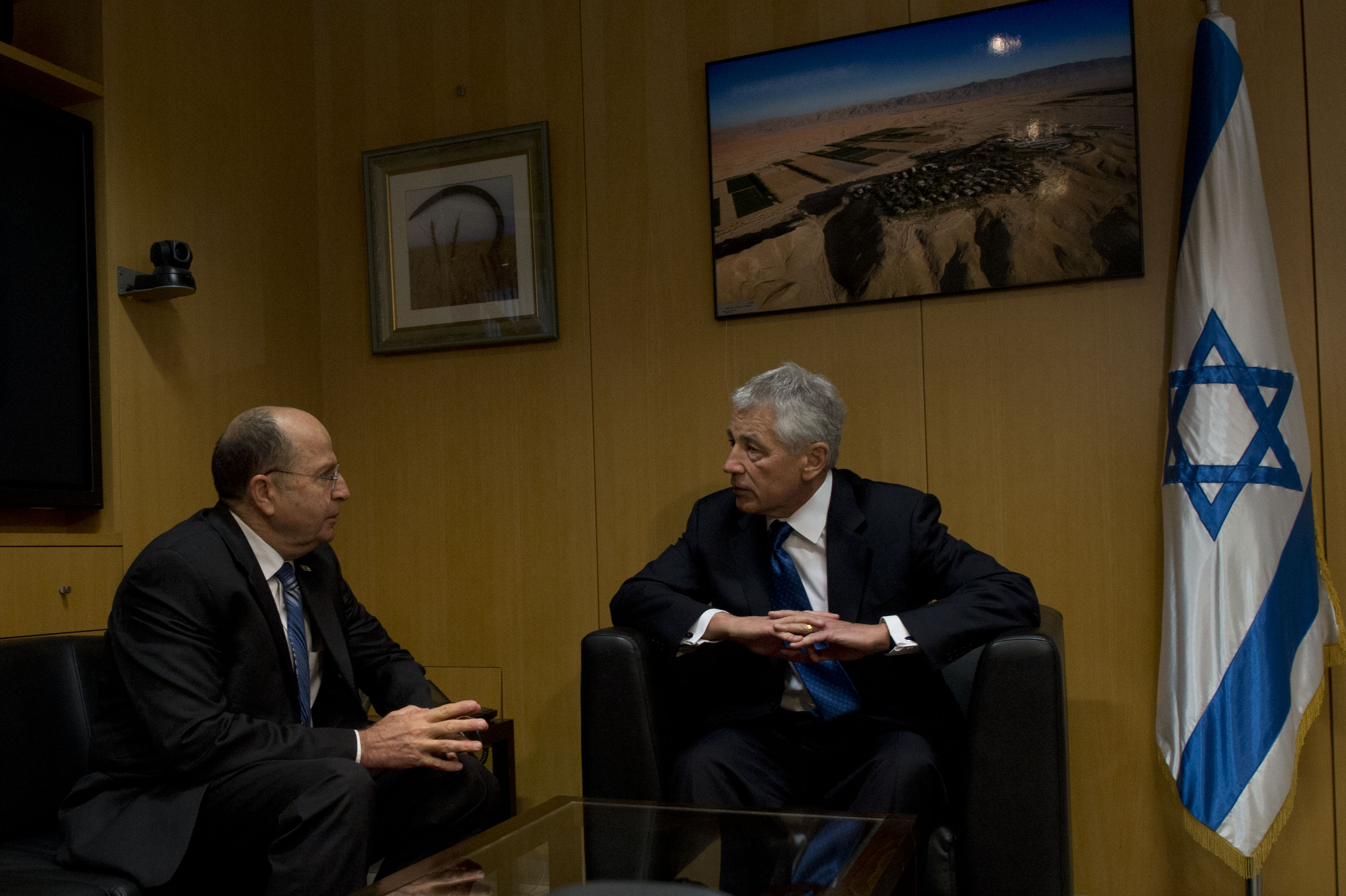 Secretary of Defense Chuck Hagel meets with Israeli Minister of Defense, Moshe Ya'alon, in Tel Aviv, Israel, April 22, 2013. Hagel will spend several days in Israel meeting with counterparts on a six day trip to the middle east.(Photo by Erin A. Kirk-Cuomo)(Released)